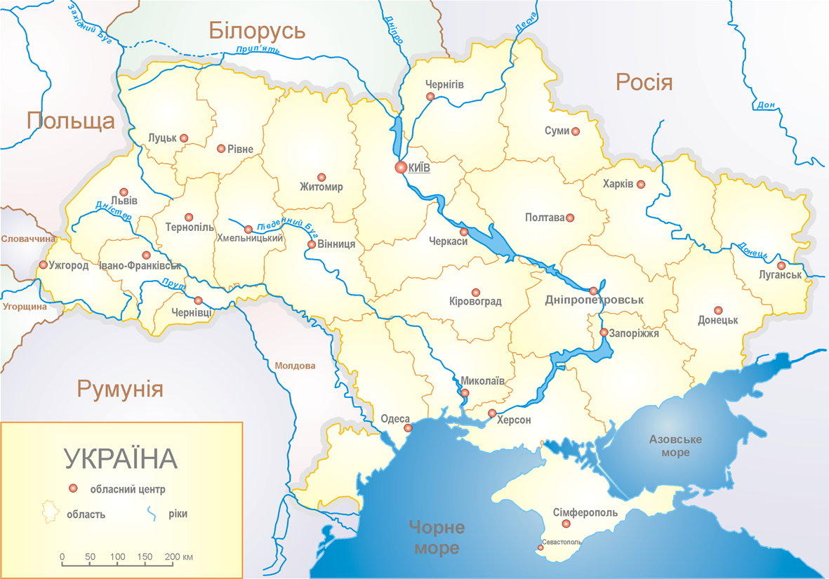 Political map of Ukraine in Ukrainian